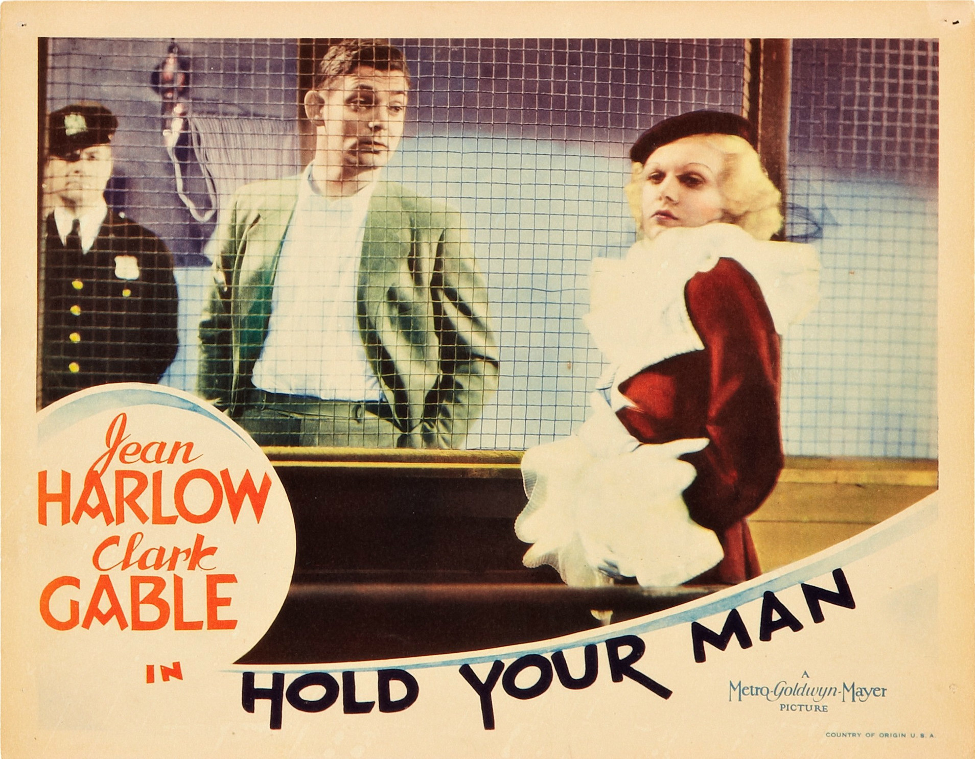 Lobby card from the American film Hold Your Man (1933) with Jean Harlow and Clark Gable.